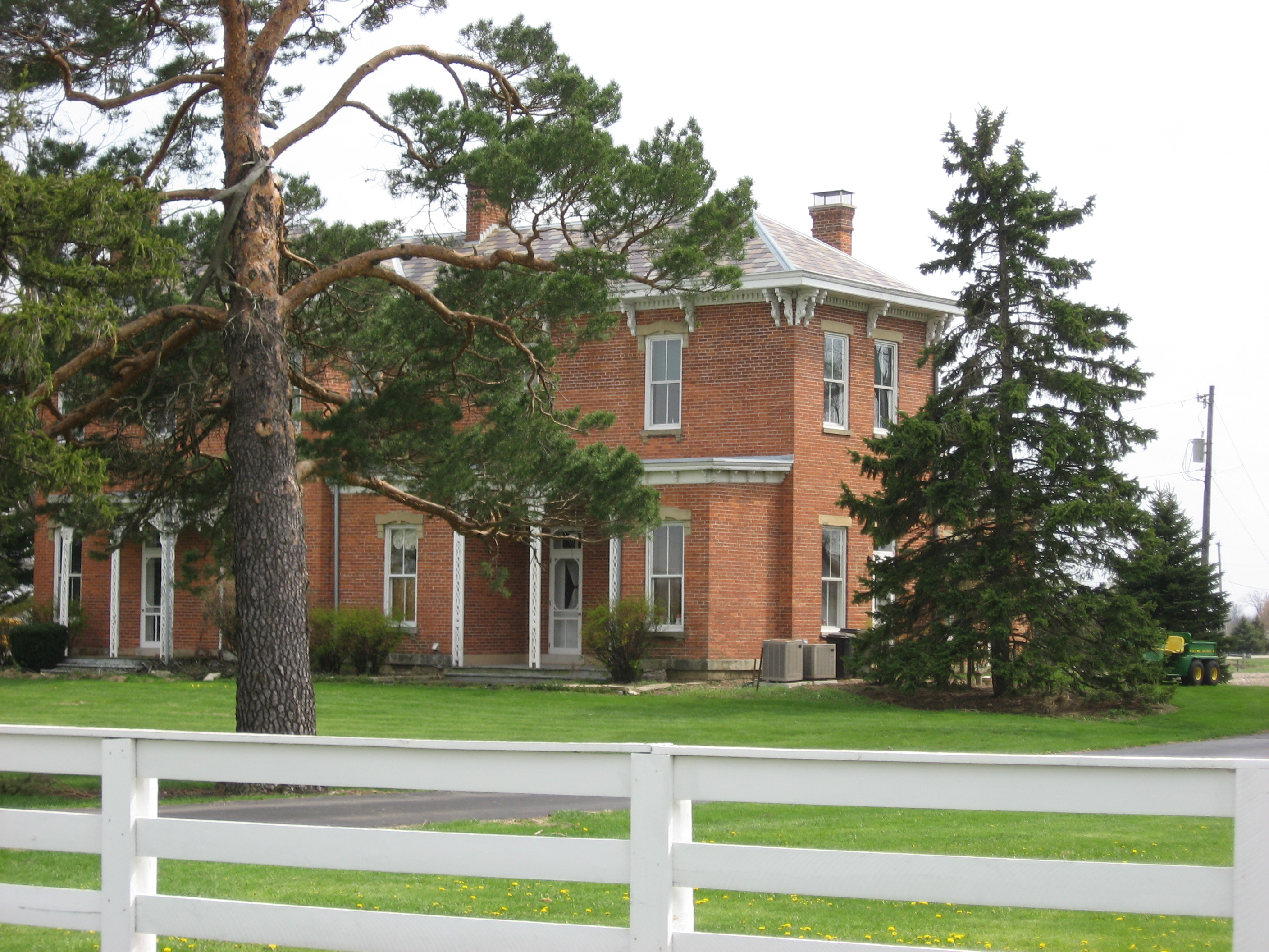 Northern side and rear of Price Corners, located at 7040 U.S. Route 42 south of Plain City in Canaan Township, Madison County, Ohio, United States. Built in 1871, it is listed on the National Register of Historic Places.